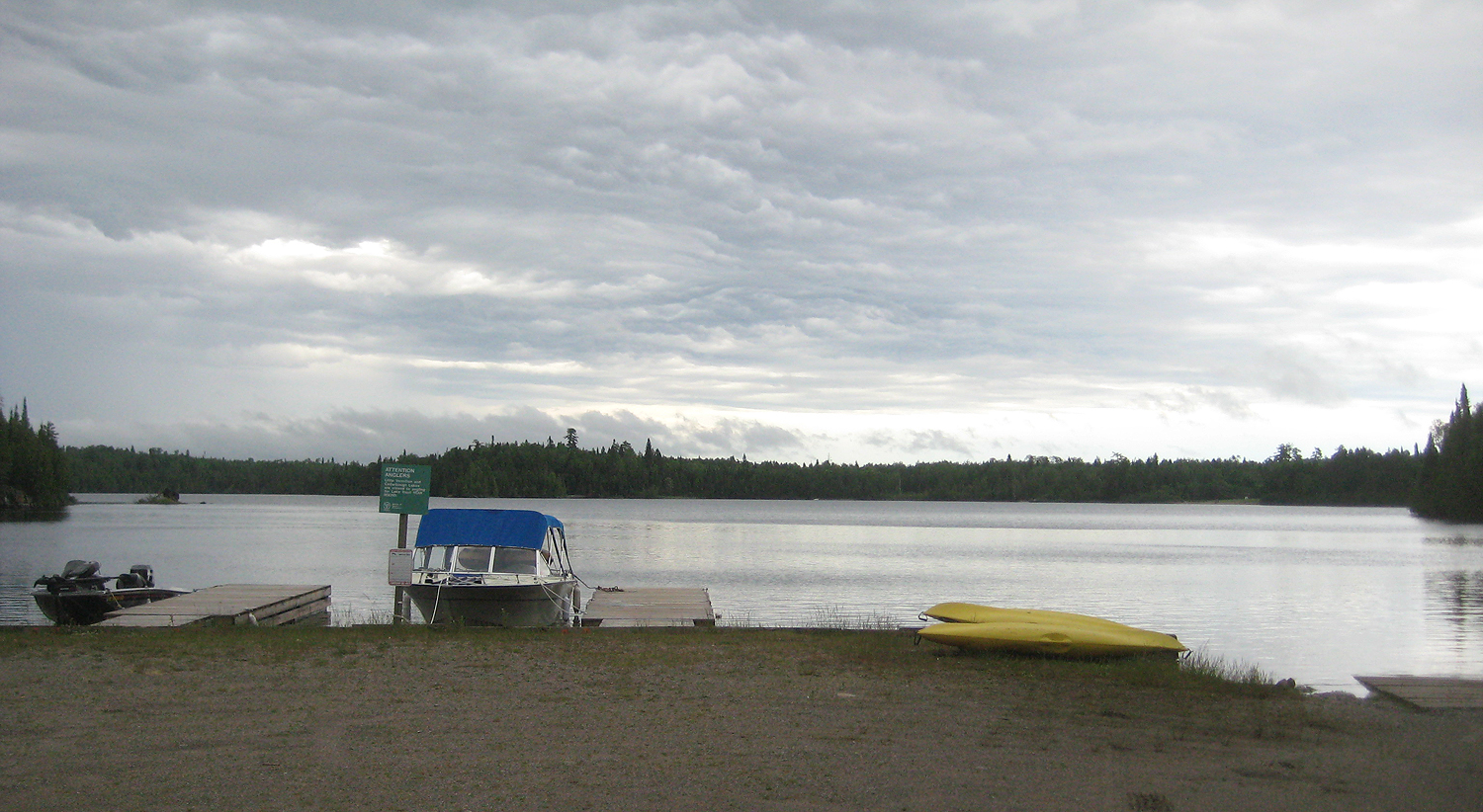 Boat launch at Ojibway Provincial Park Photo taken July 3, 2010 by Paul Darling